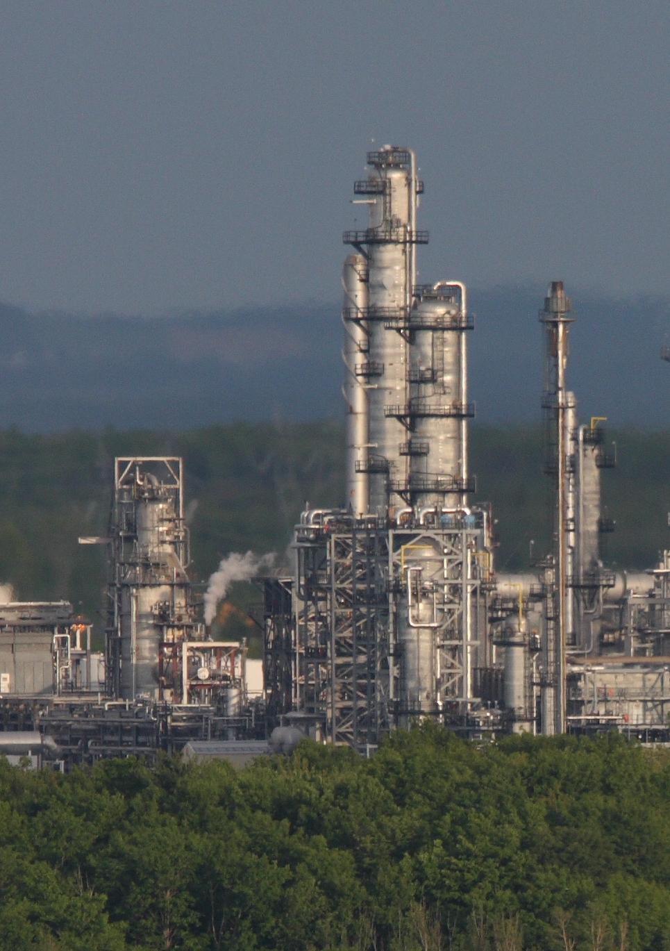 Ultramar's Jean-Gaulin Refinery in Lévis, Quebec